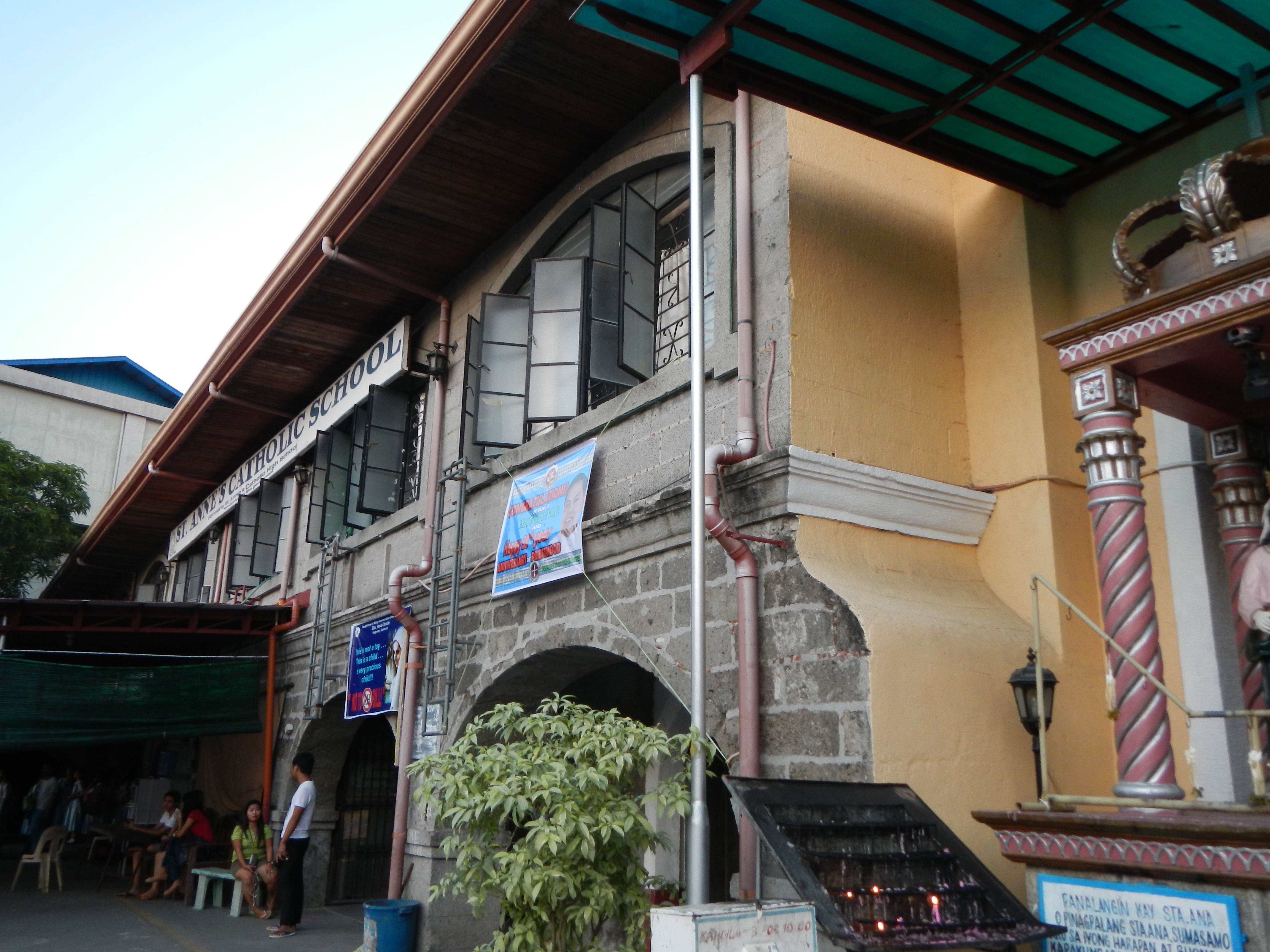 Hagonoy, Bulacan[1] St. Annes Catholic School